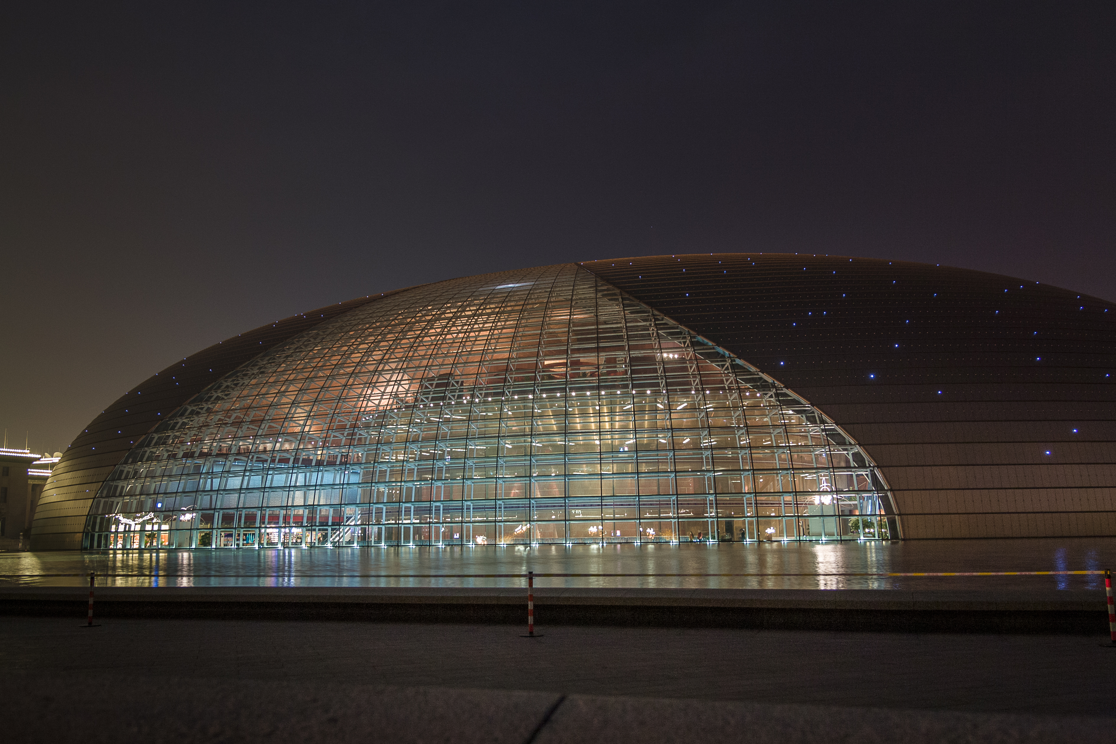 Night Piece of China National Grand Theatre